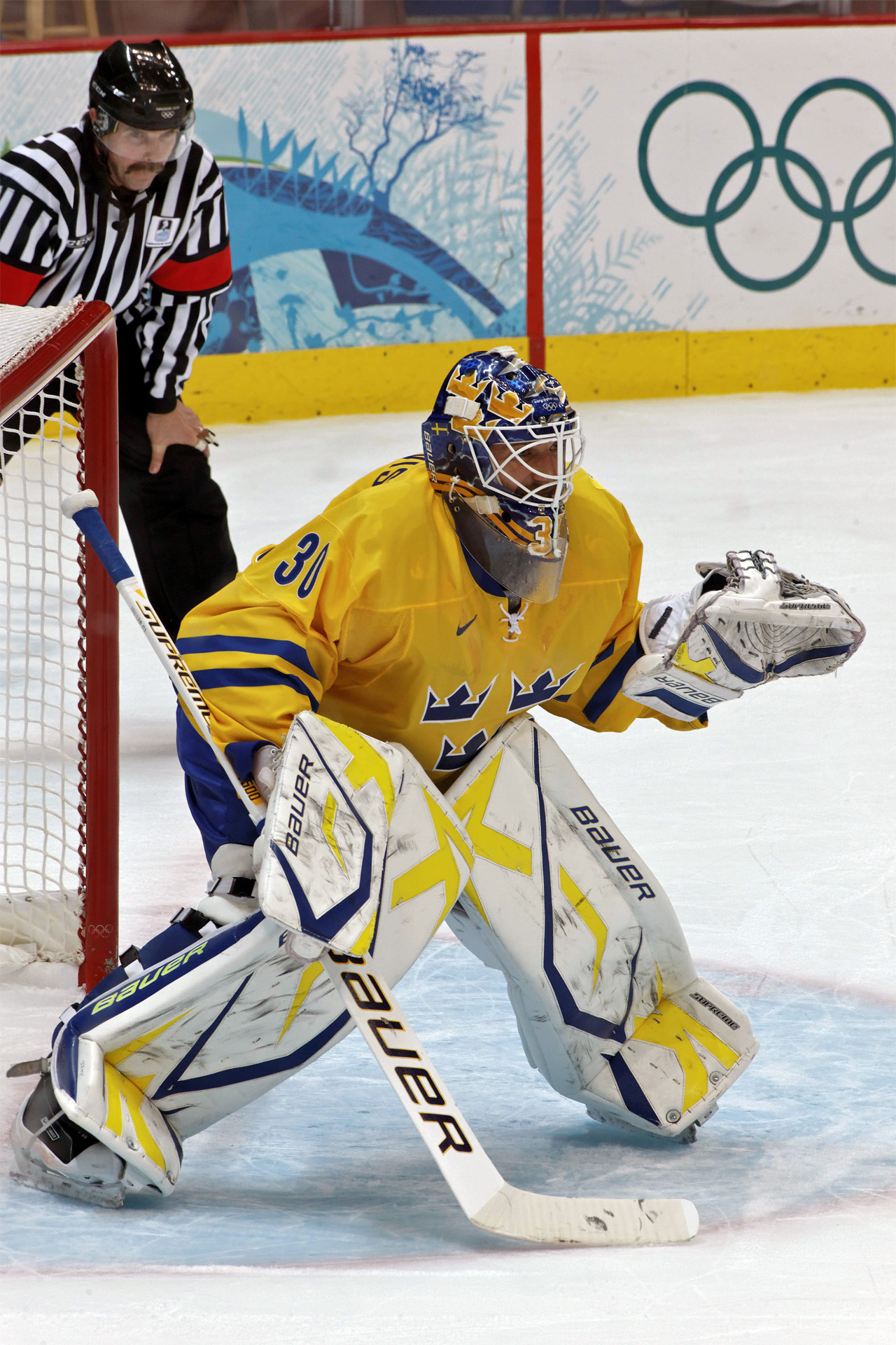 Sweden goaltender Henrik Lundqvist in action against Slovakia during the 2010 Winter Olympics